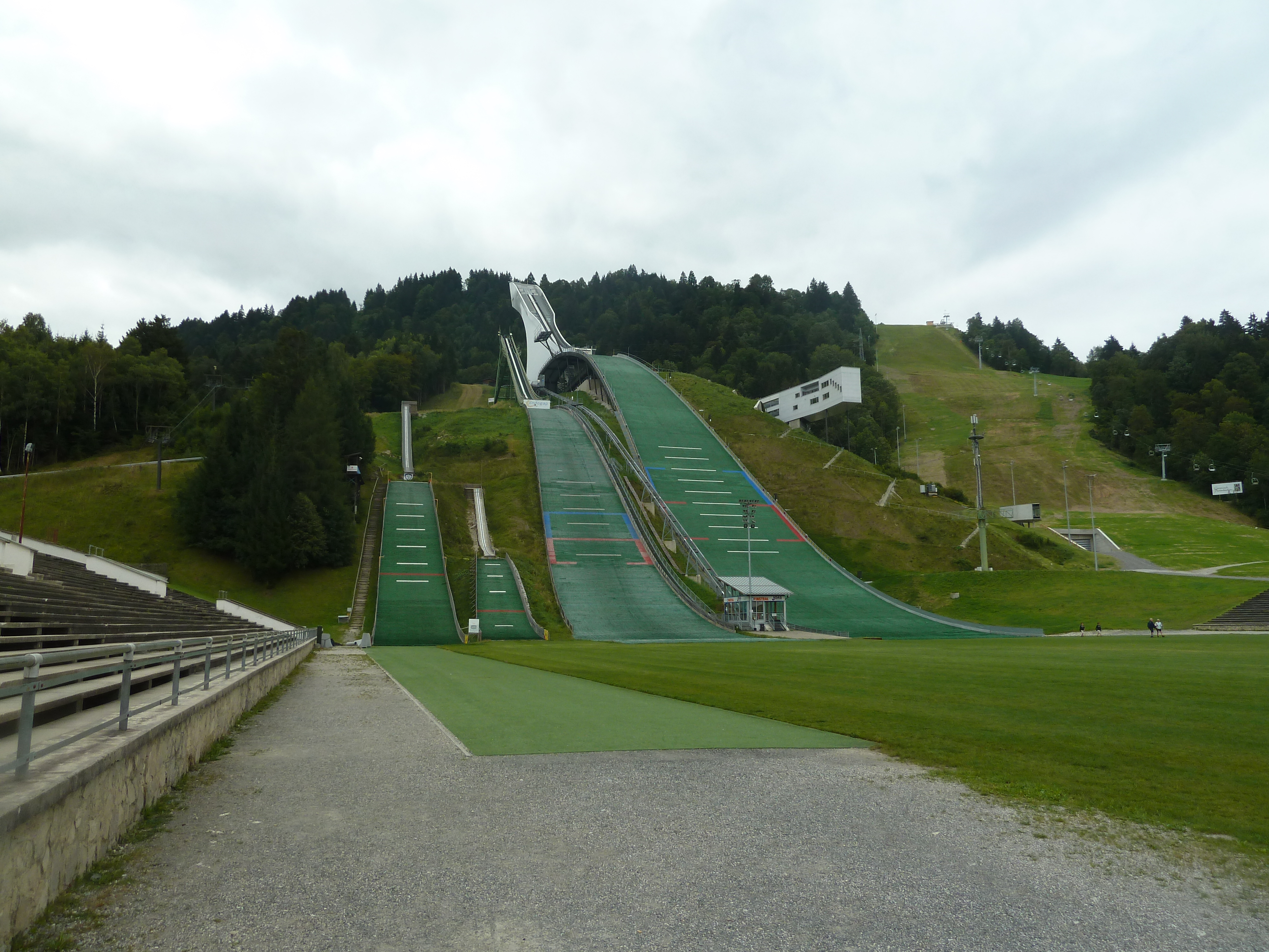 Große Olympiaschanze in August 2011